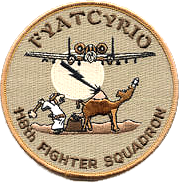 118th Expeditionary Fighter Squadron - Operation Iraqi Freedom patch